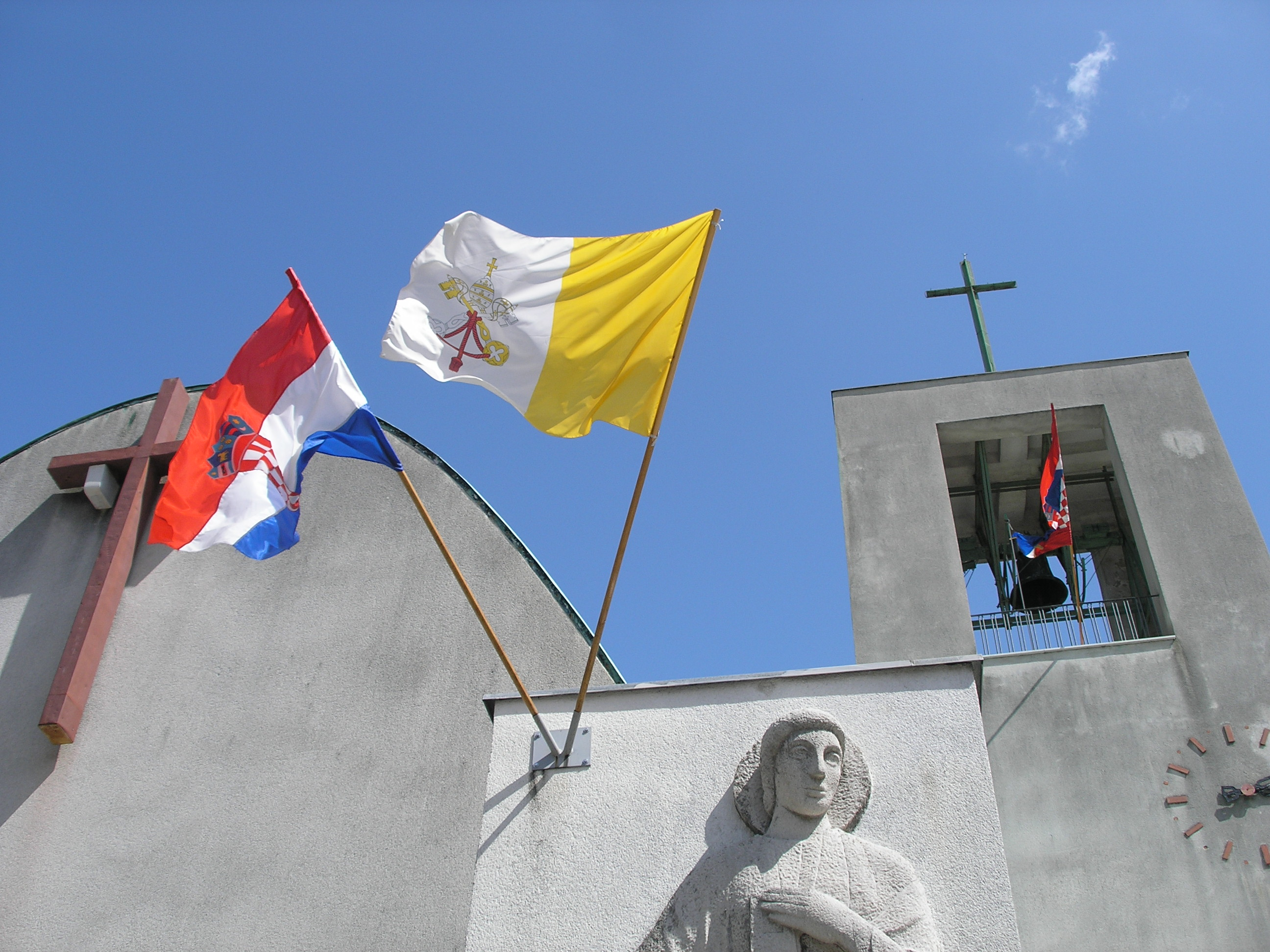 Raša church